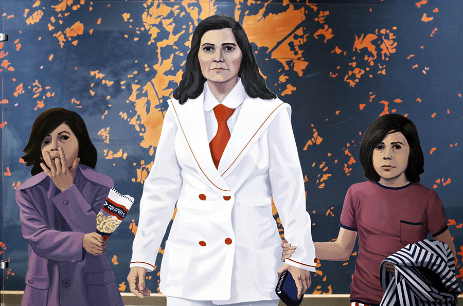 Une belle fin de journée du peintre irlando-québécois Edmund Alleyn (1973)